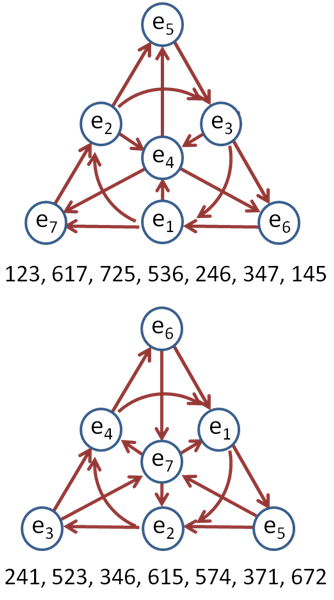 Fano planes for two different multiplication tables for the Octonions and seven-dimensional cross products